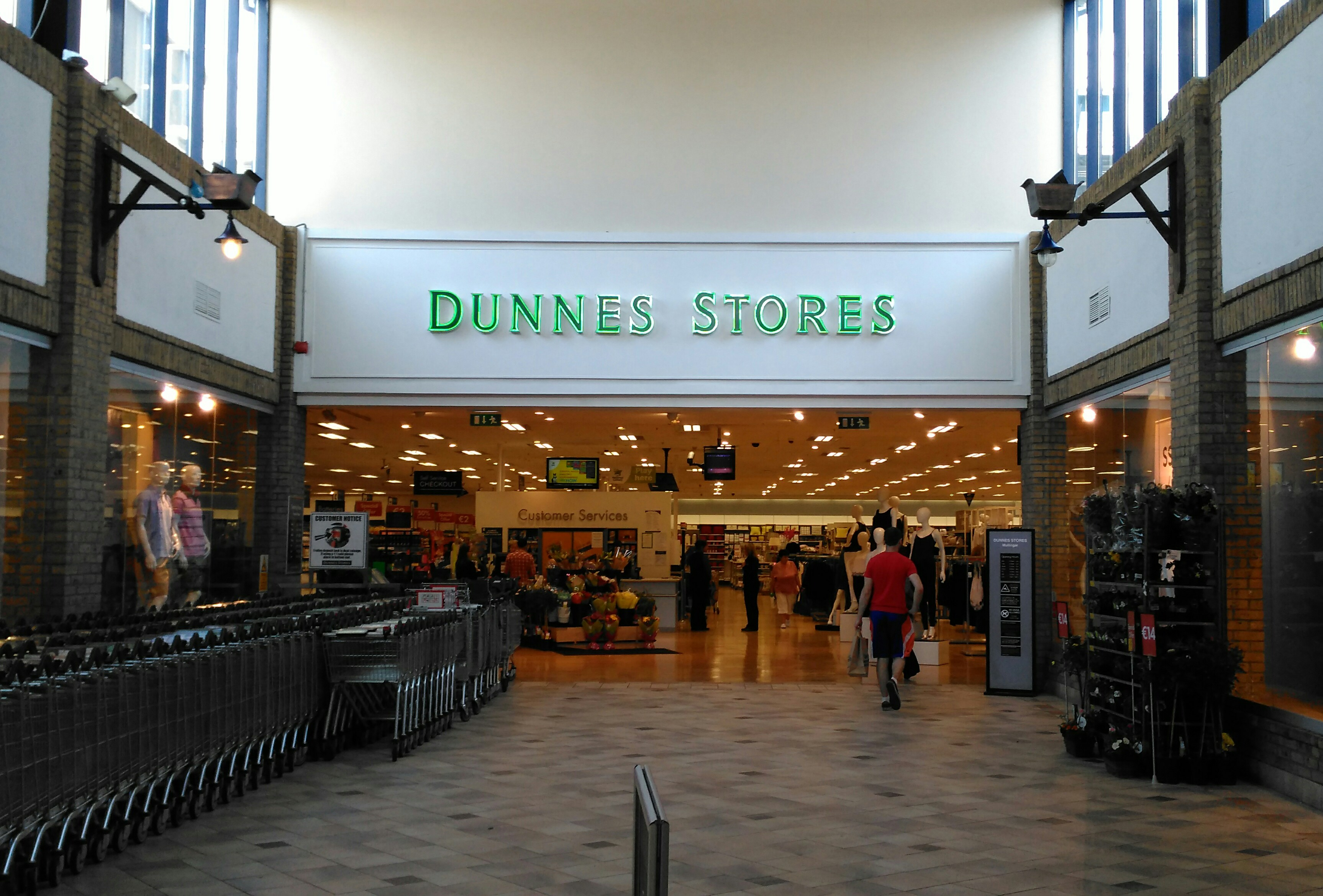 A view of the Dunnes Stores, the anchor of the Harbour Place Shopping Centre in Mullingar, entrance.